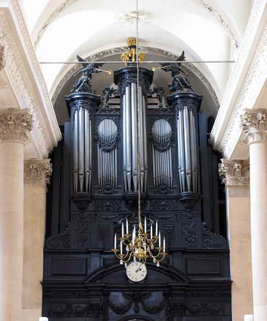 St Stephen Walbrook, Walbrook, City of London EC4N 8BN - Organ, near to London, City of London, Great Britain.